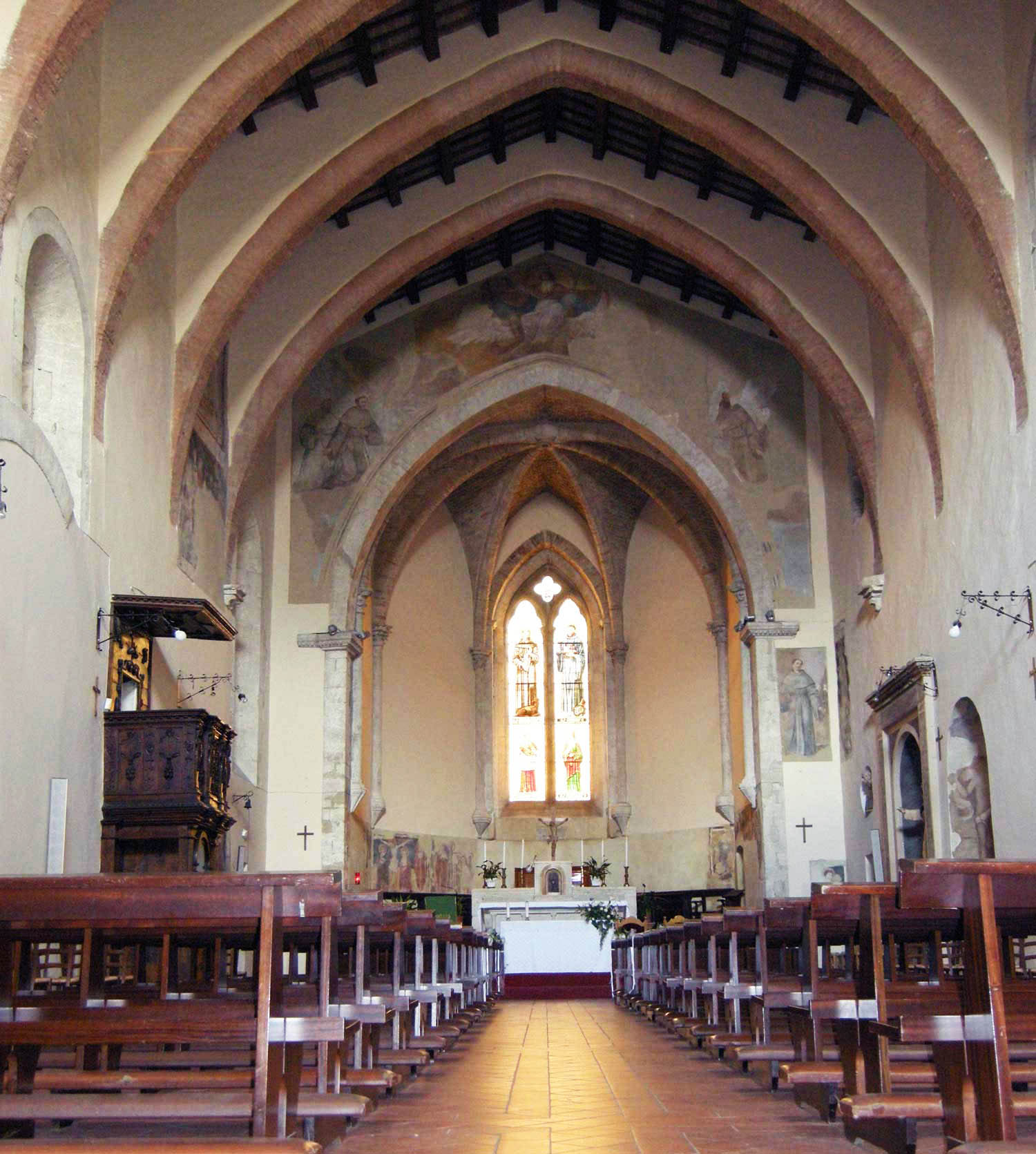 View of church interior from entrance